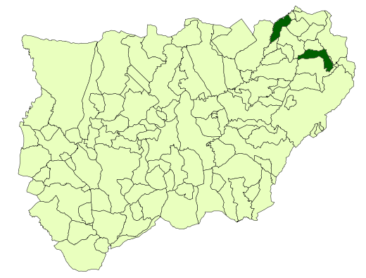 Situation of the municipality of Orcera (Jaén, Spain).